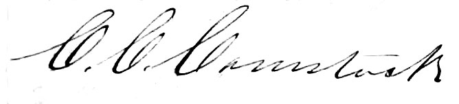 Charles Carter Comstock's signature from the Franklin House Hotel Guest Register in Rutland, Vermont, which is in the collection of H. Blair Howell.